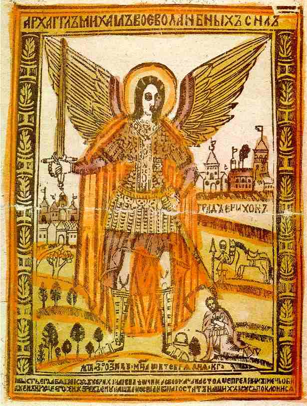 Archangel Michael. Russian lubok woodcut.